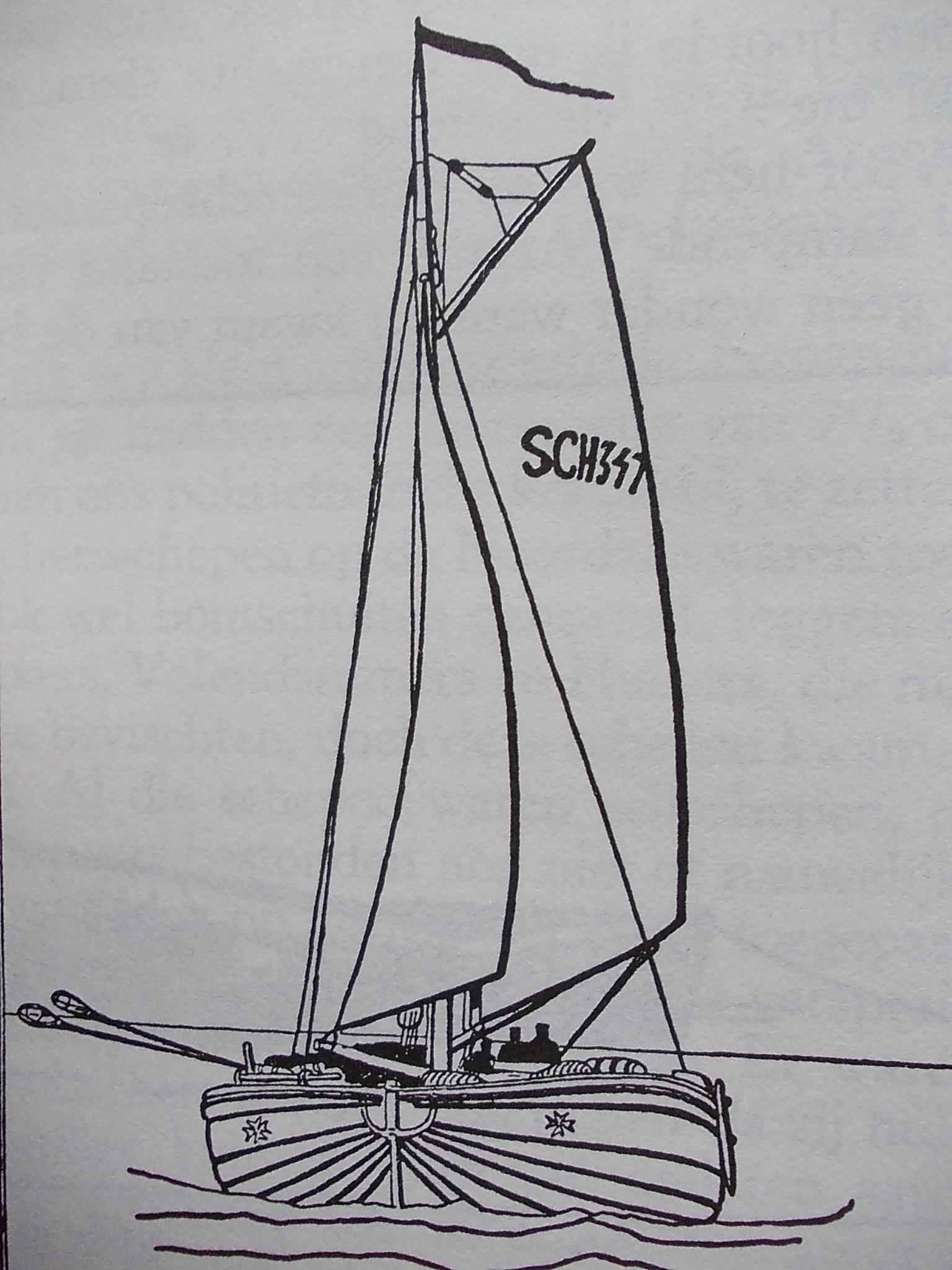 Sketch vessel